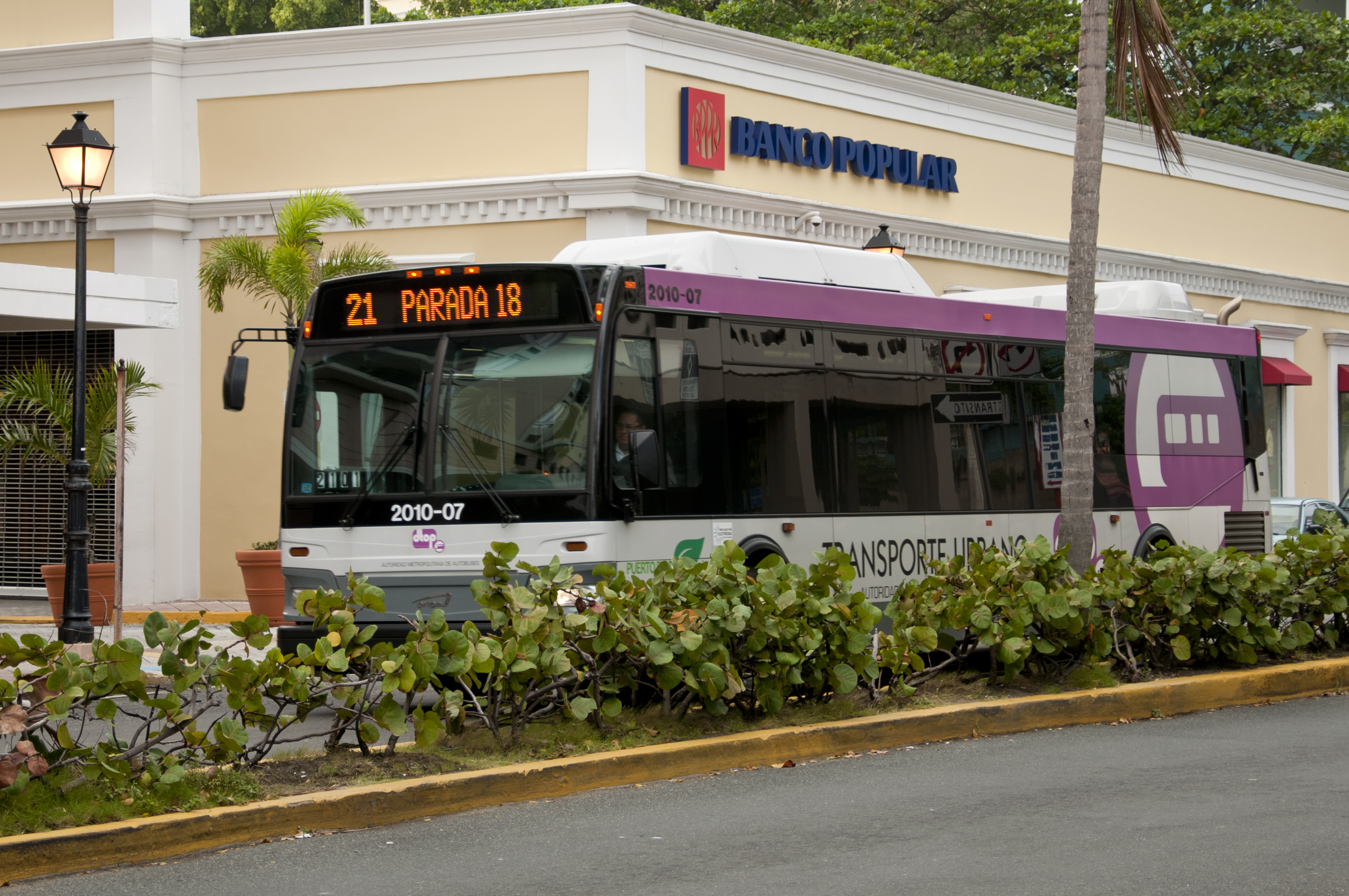 Transporte Urbano Bus No. 21